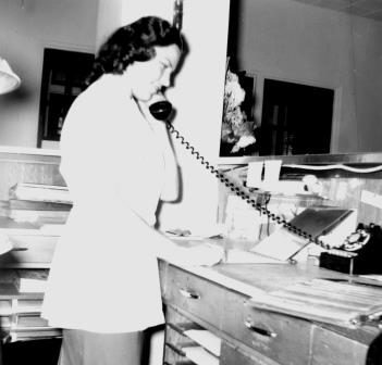 Citation: Mennonite Board of Missions Photograph Collection. Mission to La Junta, Colorado. IV-10-7.2 Box 3 Folder 3-3, Photo 24. Mennonite Church USA Archives - Goshen. Goshen, Indiana.